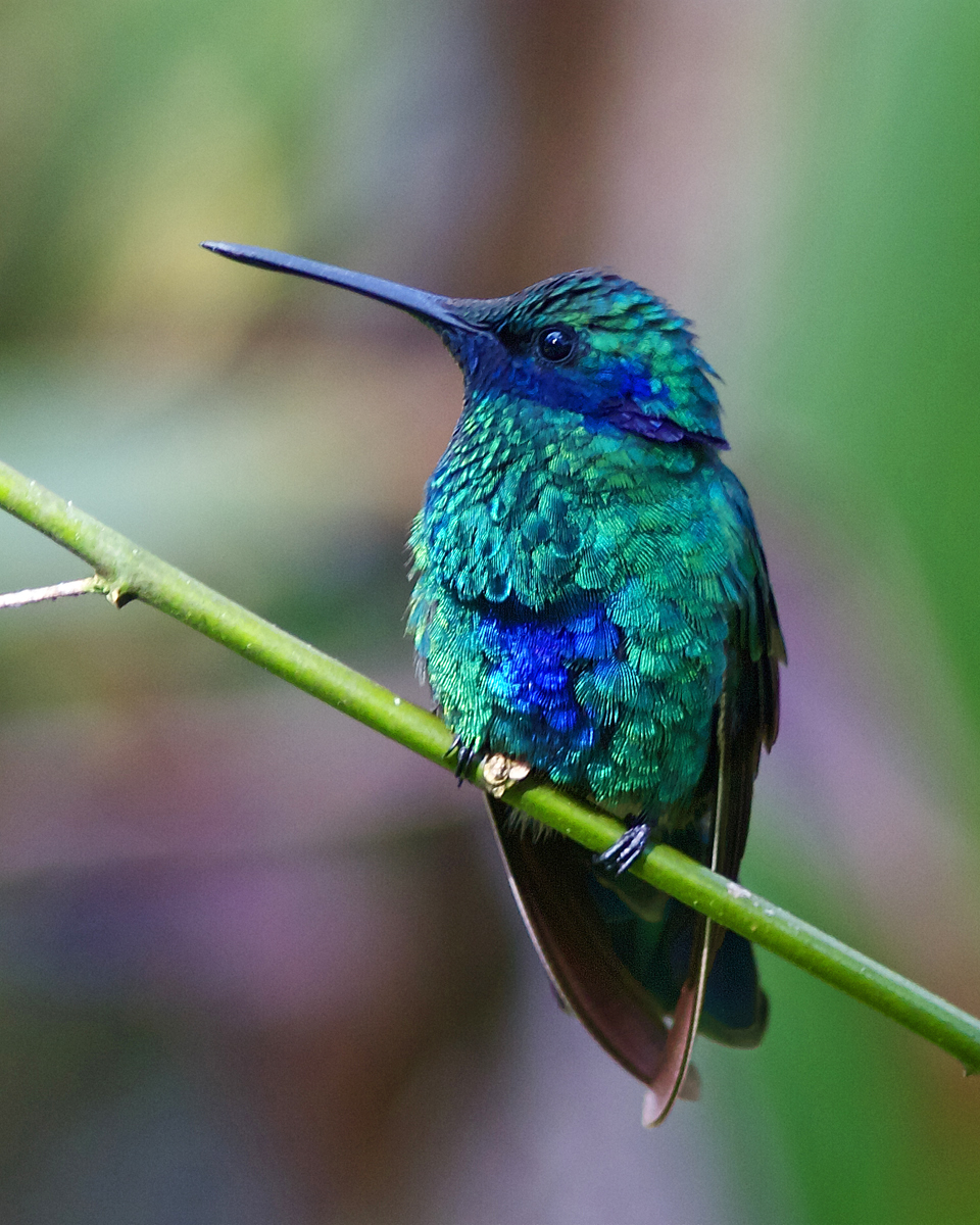 Sparkling Violet-ear photo taken at San Isidro Lodge (east slope), Ecuador.